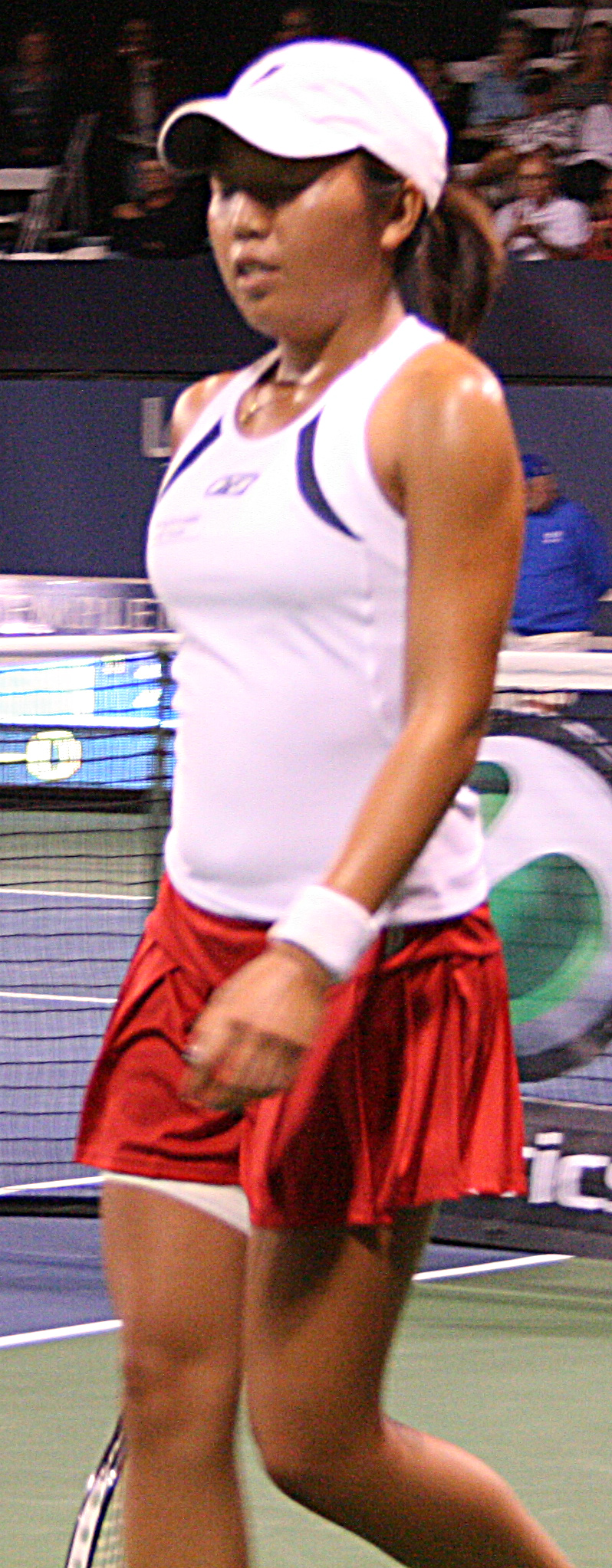 Vania King at the 2007 Acura Classic.